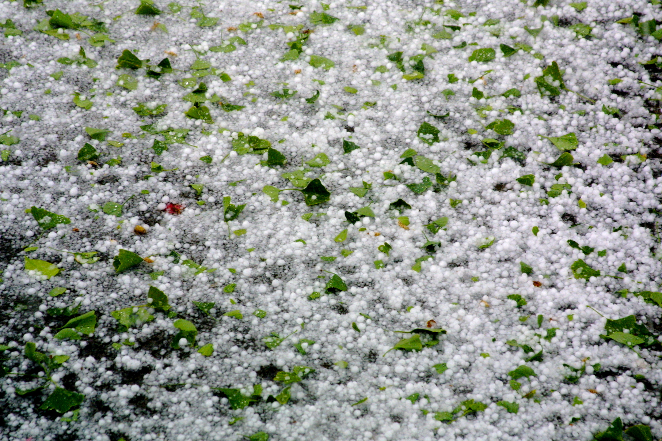 Hail storm, May 9, 2005 3 of 6IMG_0011.JPG